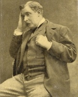 Alphonse Allais (1854-1905)